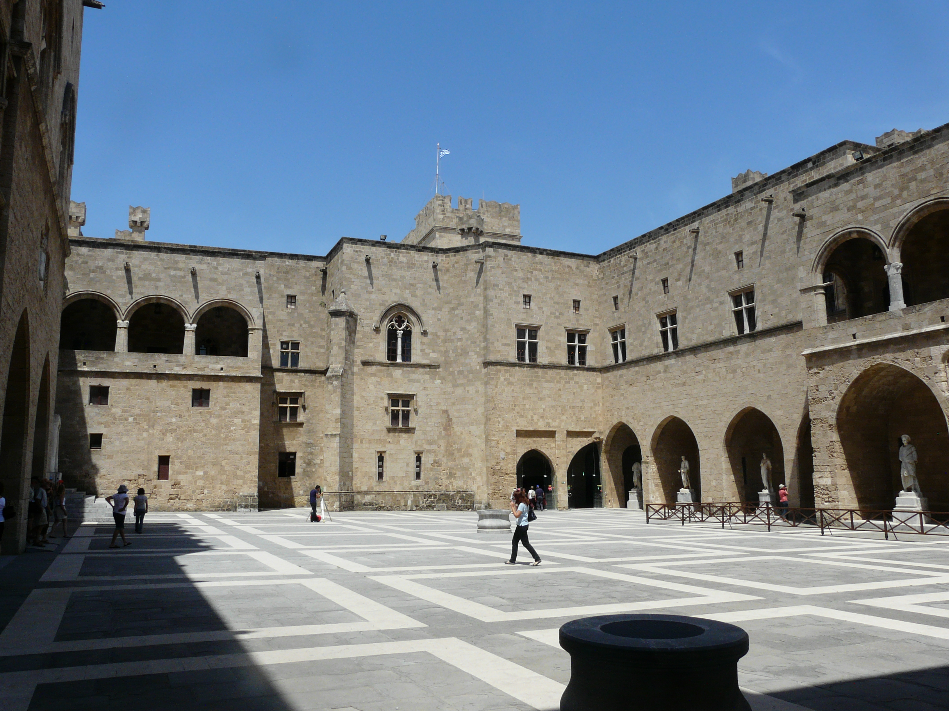 Palace of the Grand Master of the Knights of Rhodes